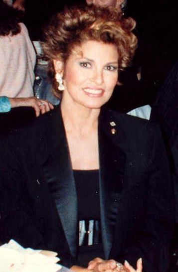 Raquel Welch at the 39th Emmy Awards - Governor's Ball - Sept. 1987